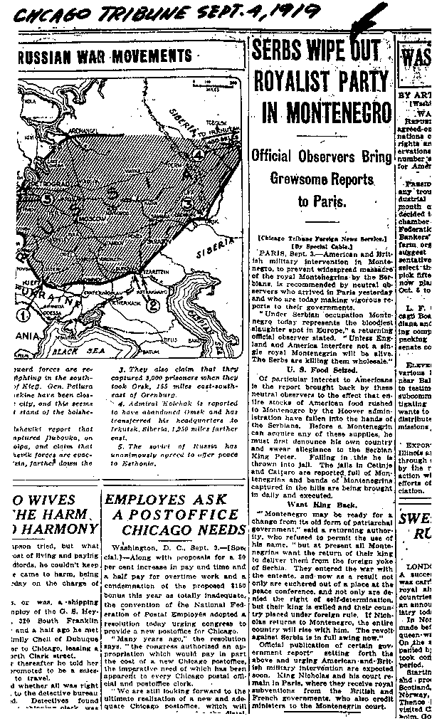 1919 Chicago newspaper: main article shown is "Serbs Wipe Out Royalist Party in Montenegro"; other headline shown is "Employes Ask a Postoffice Chicago Needs" [sic]; also, part of a map and summary titled "Russian War Movements"